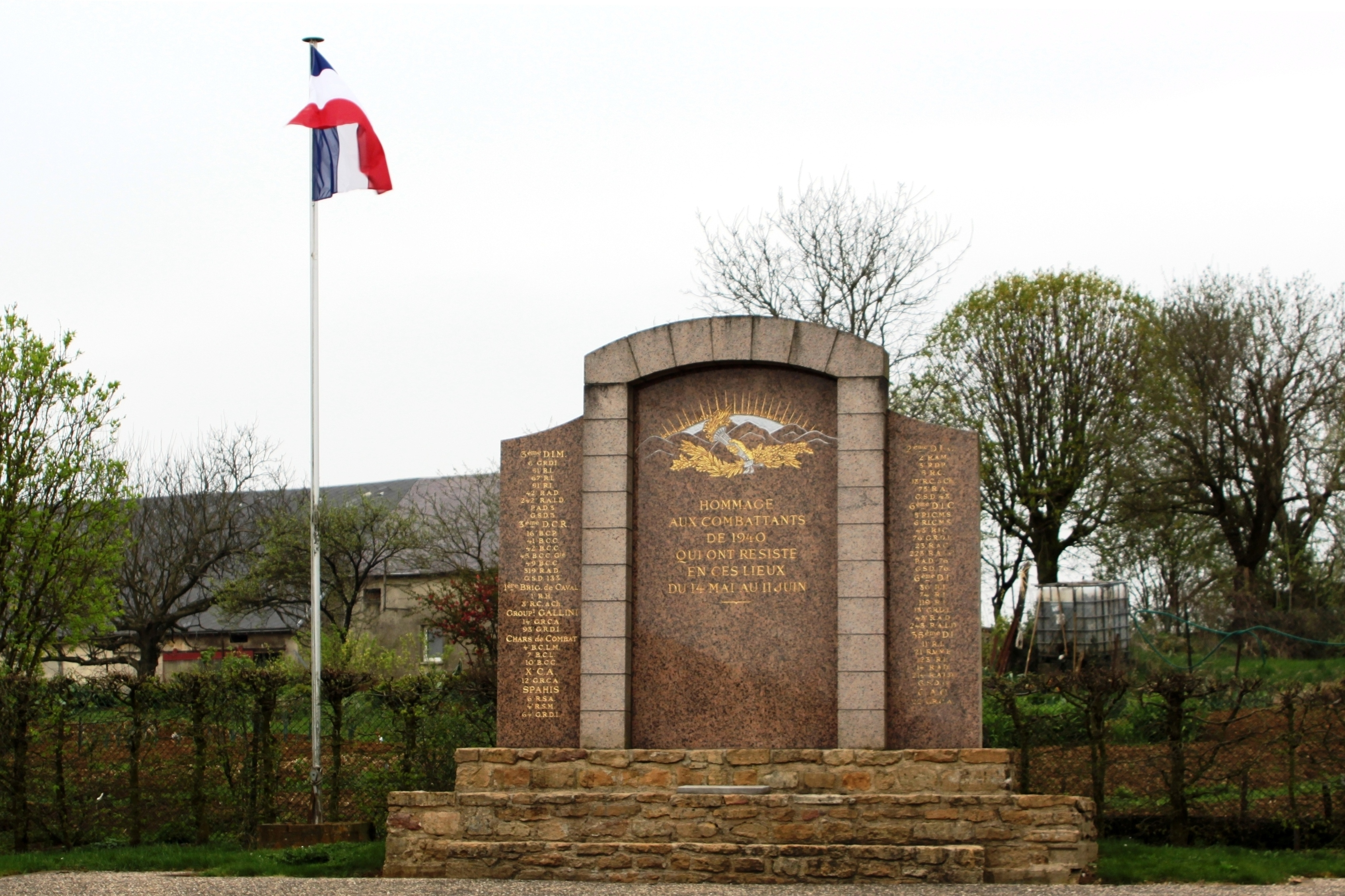 Memorial in Stonne (Ardennes, France) with the names of all french Units involved during the battle of Stonne